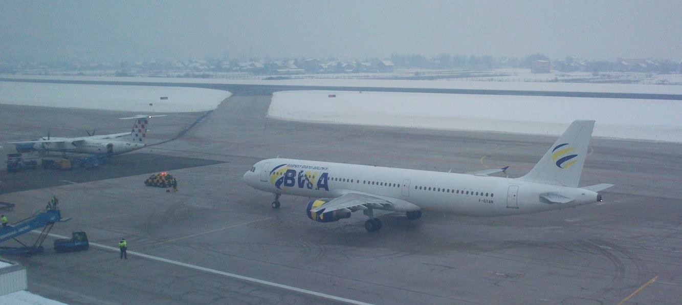 F-GYAN Bosnian Wand Airlines Airbus A321-111 at Sarajevo International Airport